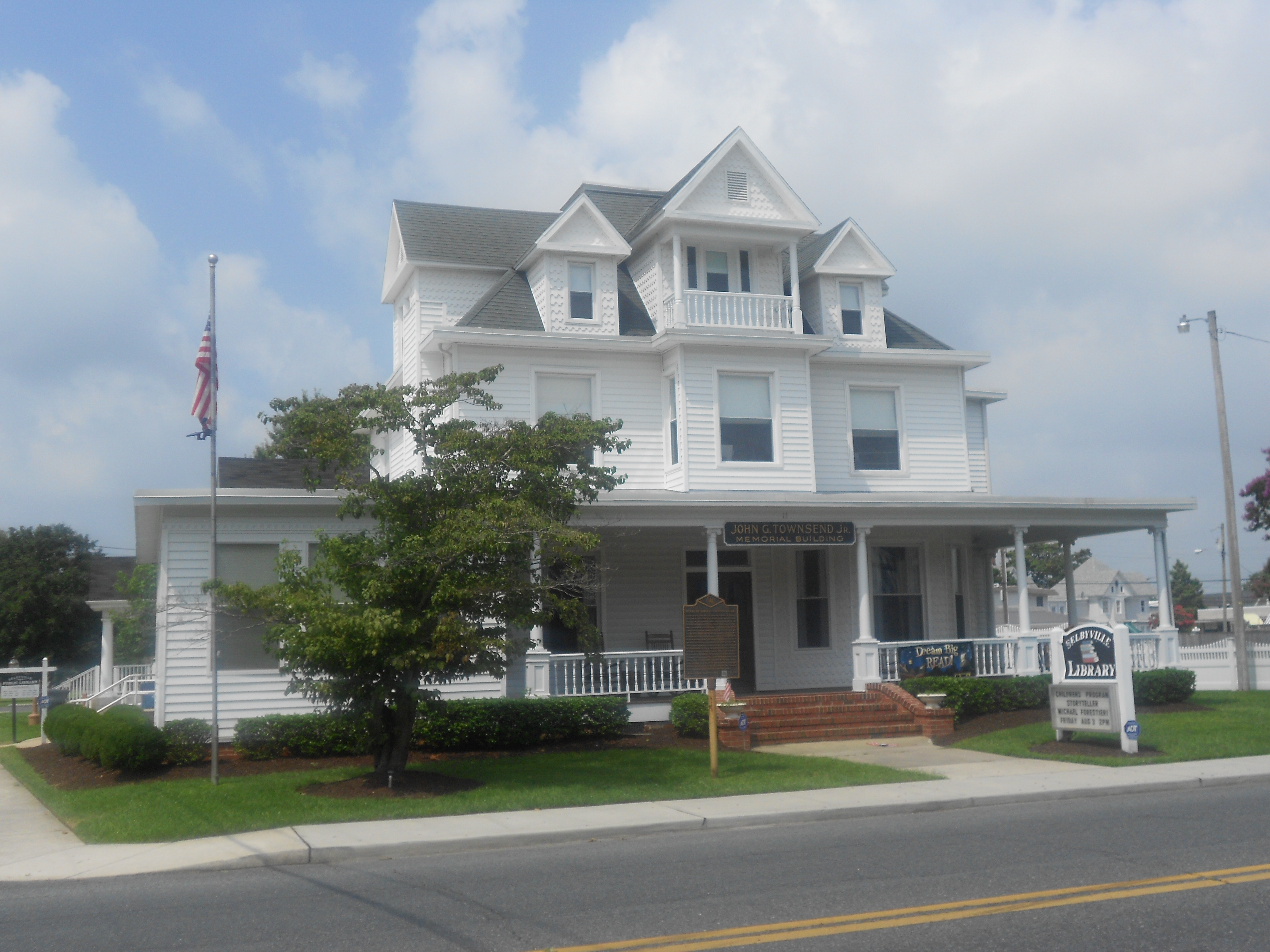 Selbyville Public Library, located at 11 Main & McCabe Streets - Selbyville, Delaware 19975